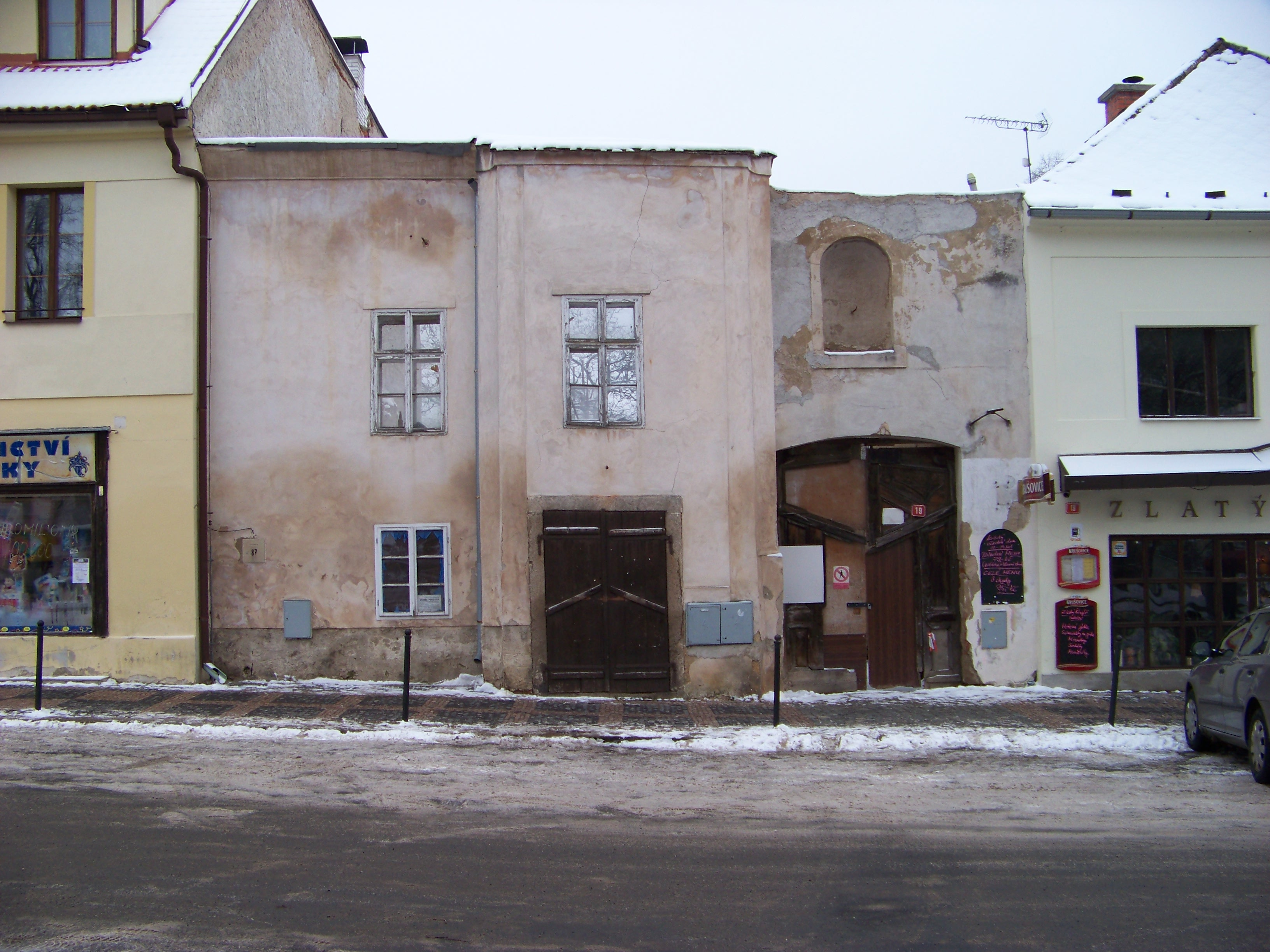 Jílové u Prahy, Prague-West District, Central Bohemian Region, Czech Republic. Masarykovo náměstí 19.